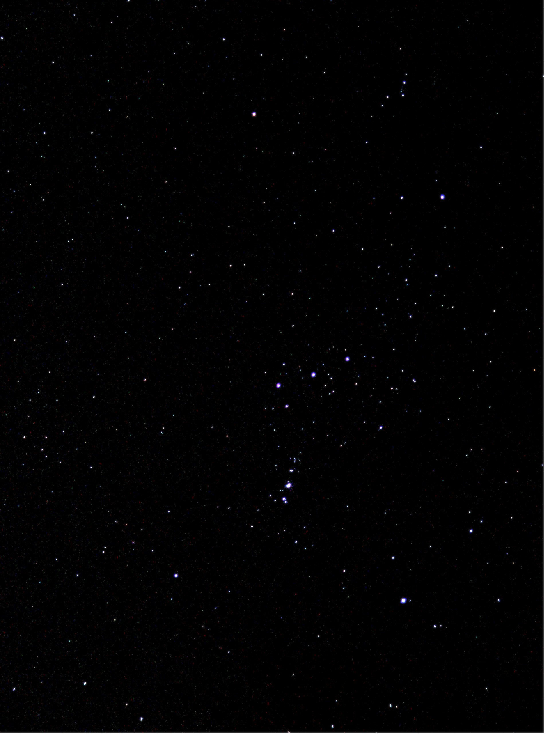 Orion constellation taken with a Sony DSC F717, f/2.2 18mm ISO-800 focus infinity, 15 stacked 2-second full-color images, taken by Todd D. Vance, December 15, 2006, 11:21PM EST from Bowie, MD.